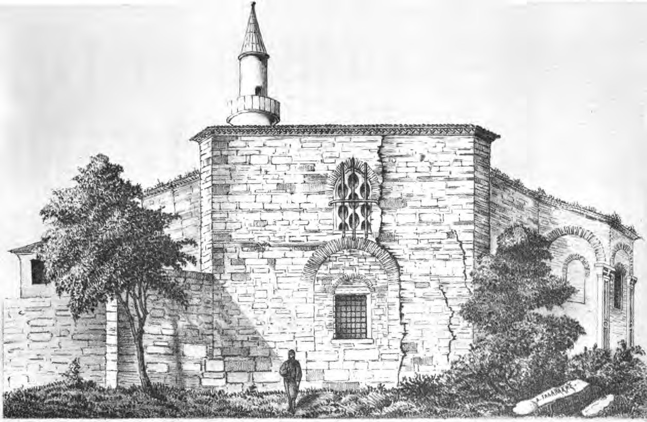 The Sancaktar Hayrettin Mosque, converted from the Byzantine Monastery of Gastria, from A. G. Paspates' Byzantinai meletai topographikai (1877) Author: Paspatēs, Alexandros Geōrgiou, 1814-1891. [from old catalog] Subject: Inscriptions, Greek Year: 1877 Possible copyright status: NOT_IN_COPYRIGHT Language: English Digitizing sponsor: Google Book contributor: Oxford University Collection: europeanlibraries